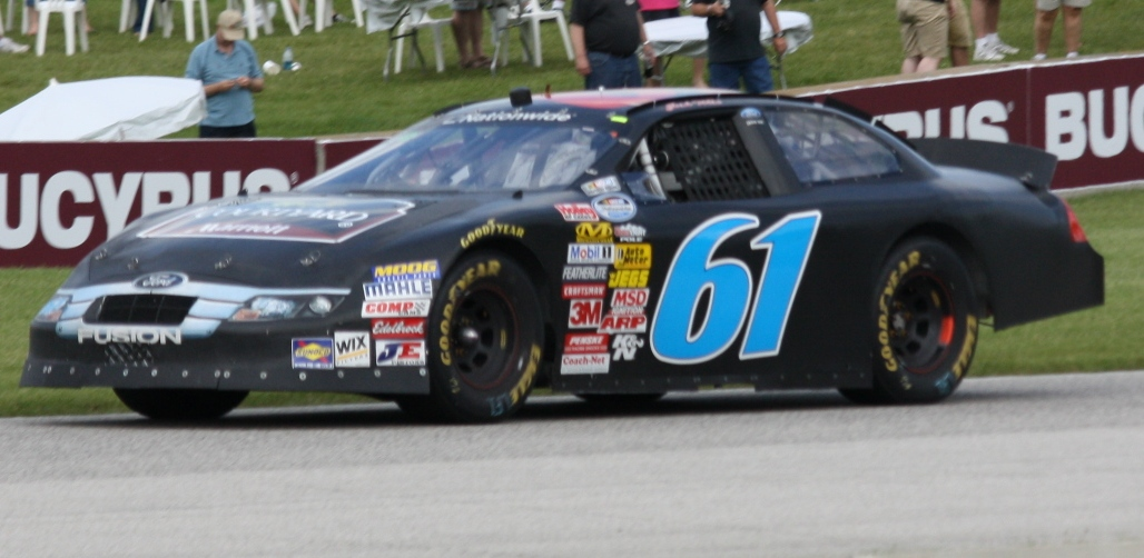 The NASCAR racecar for driver Josh Wise at the 2010 Bucyrus 200 at Road America.